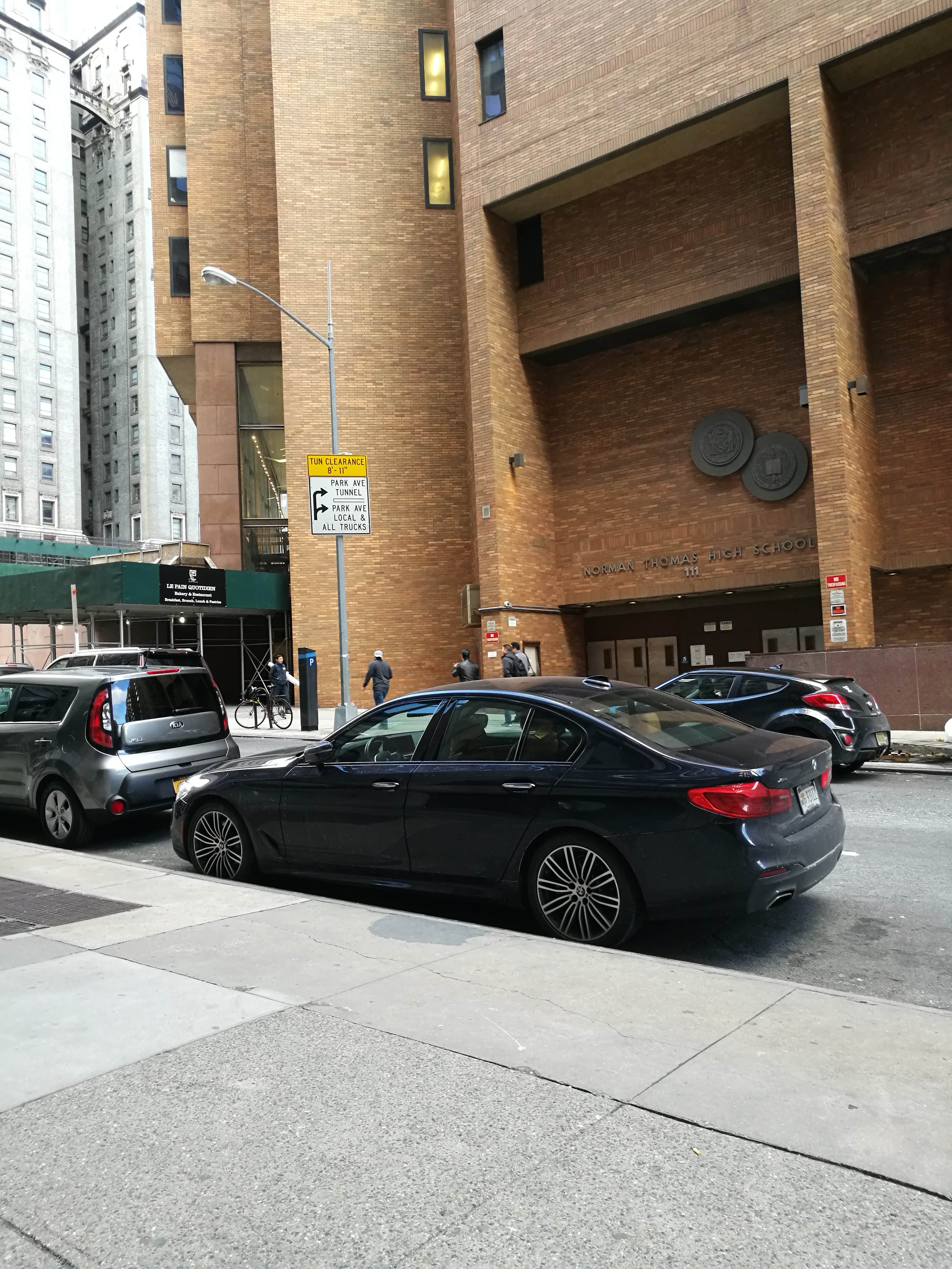 Front Entrance of Norman Thomas High School of Manhattan, NY. View along 33rd St facing Northwest toward Park Avenue.